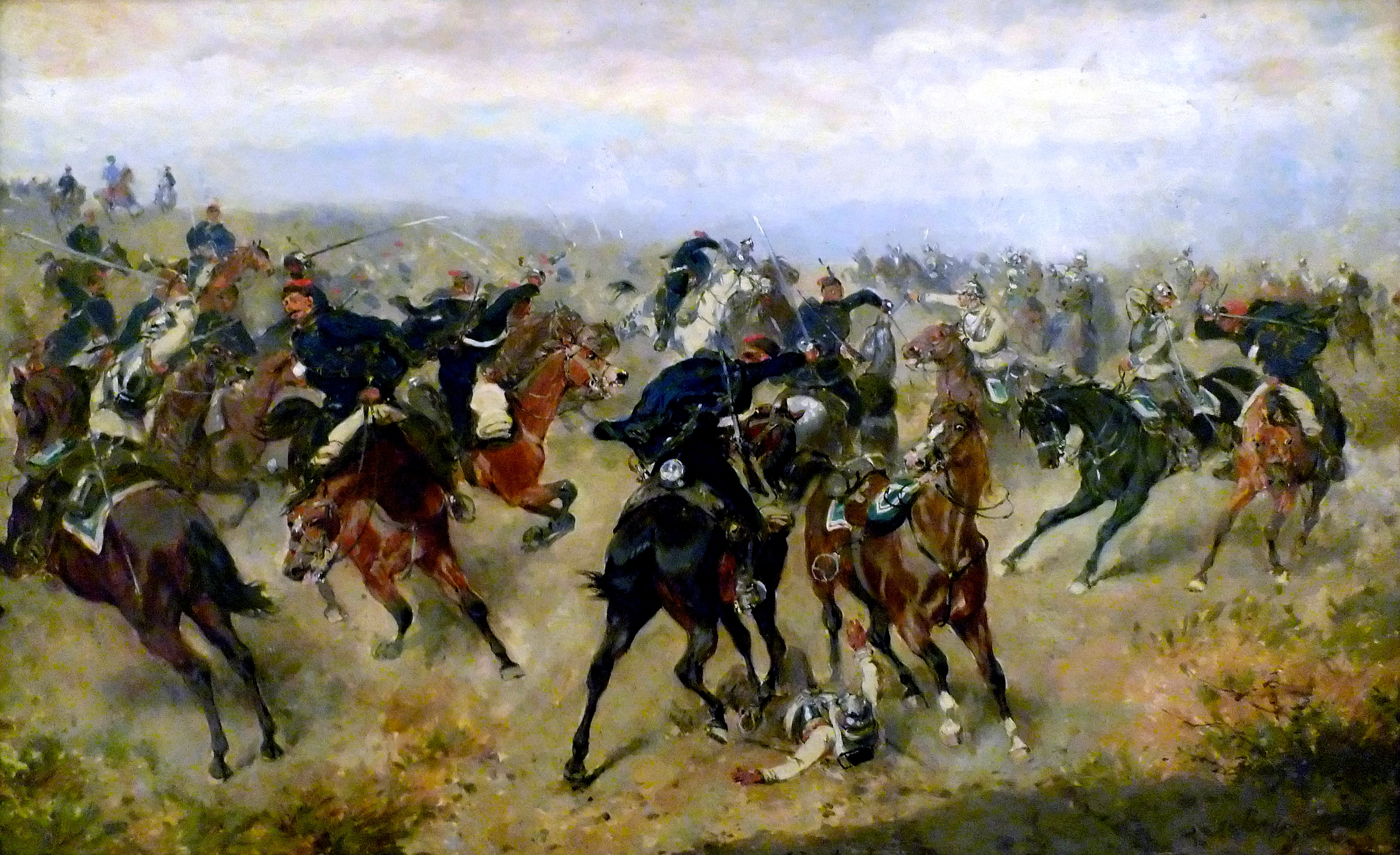 Skirmish between Austrian hussars and Prussian cuirassiers at the Battle of Königgrätz. Oil on wood.